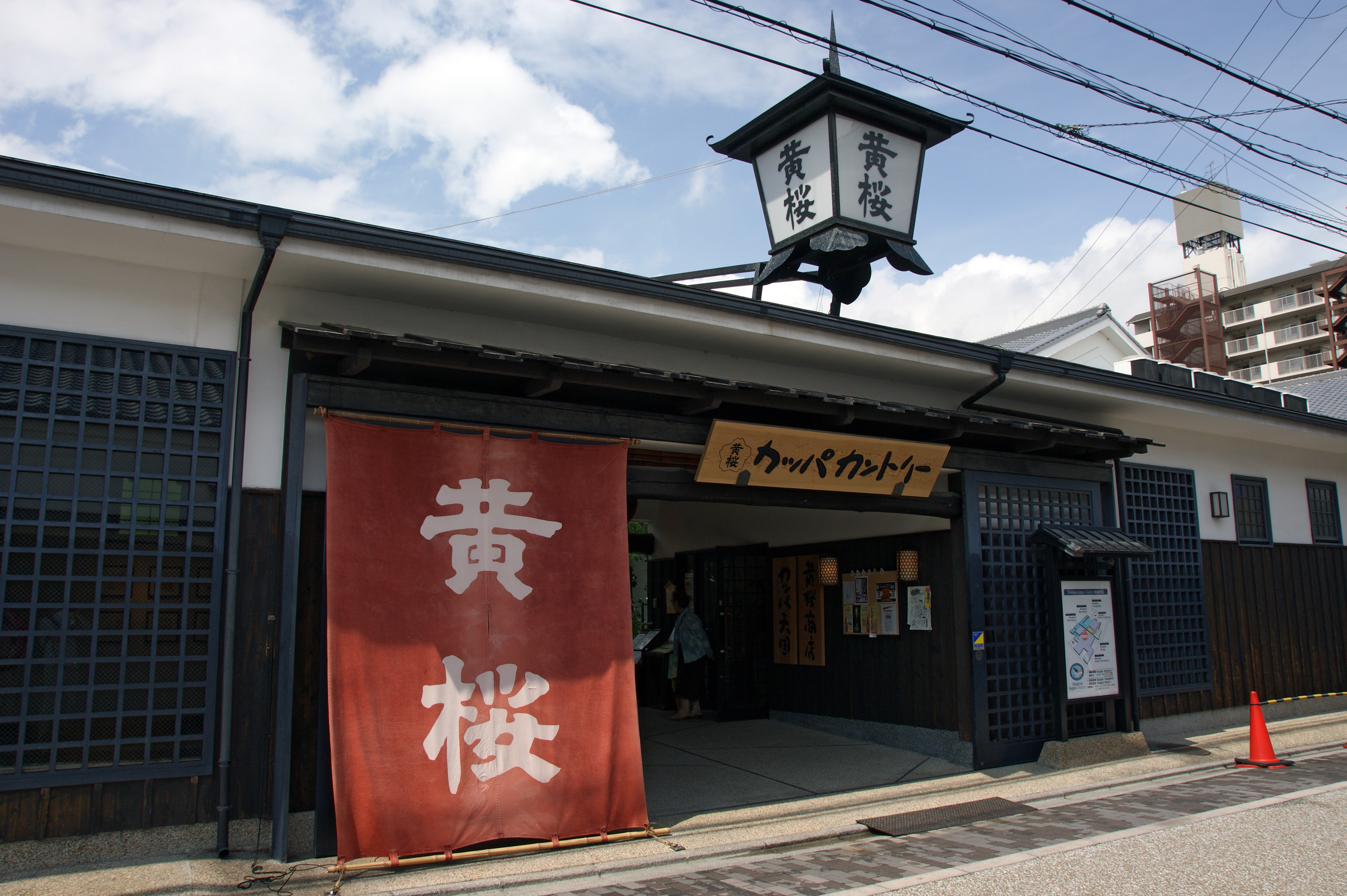 Kizakura Kappa Country in Fushimi, Kyoto, Kyoto prefecture, Japan